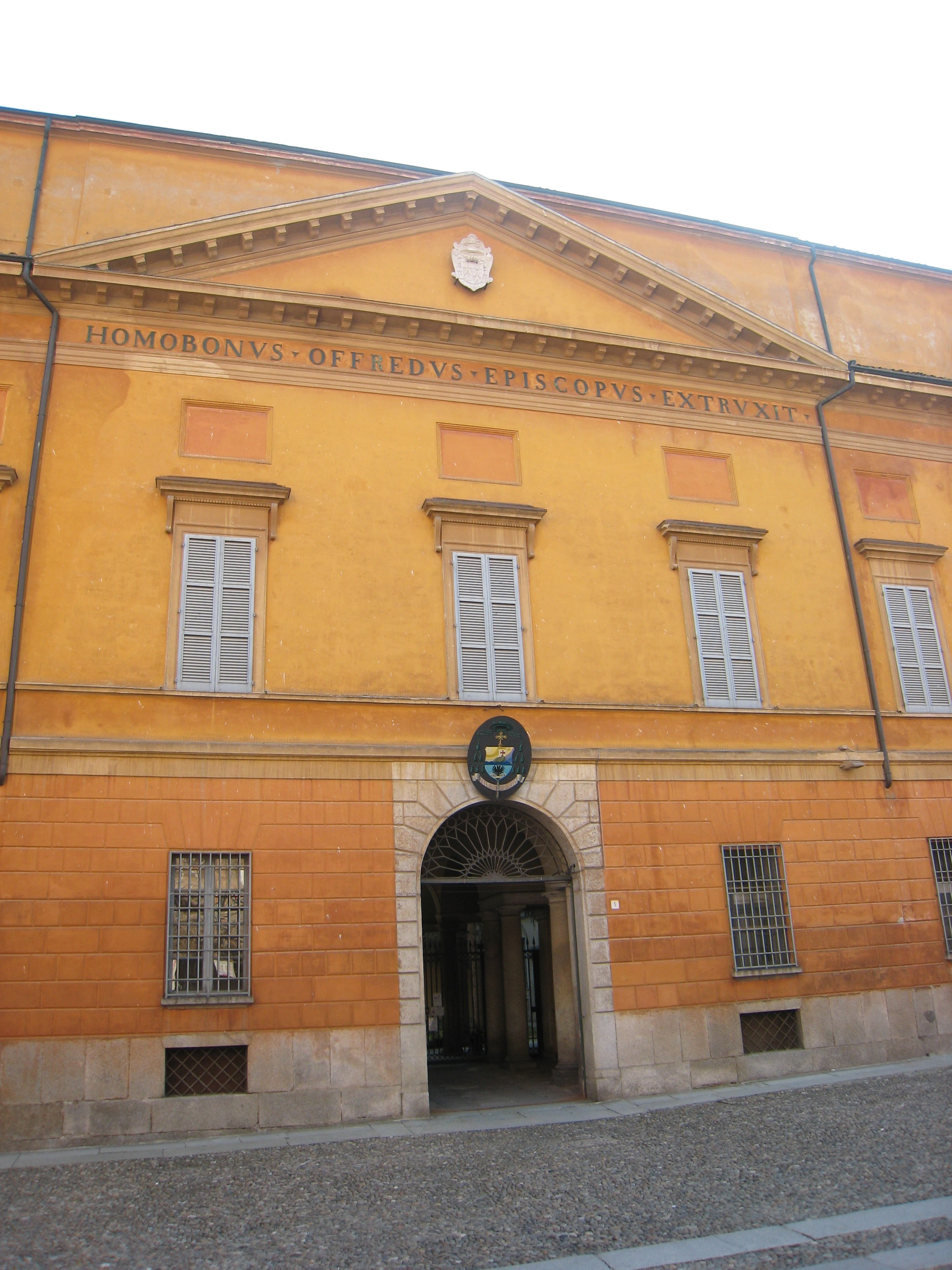 Bishop palace in Cremona